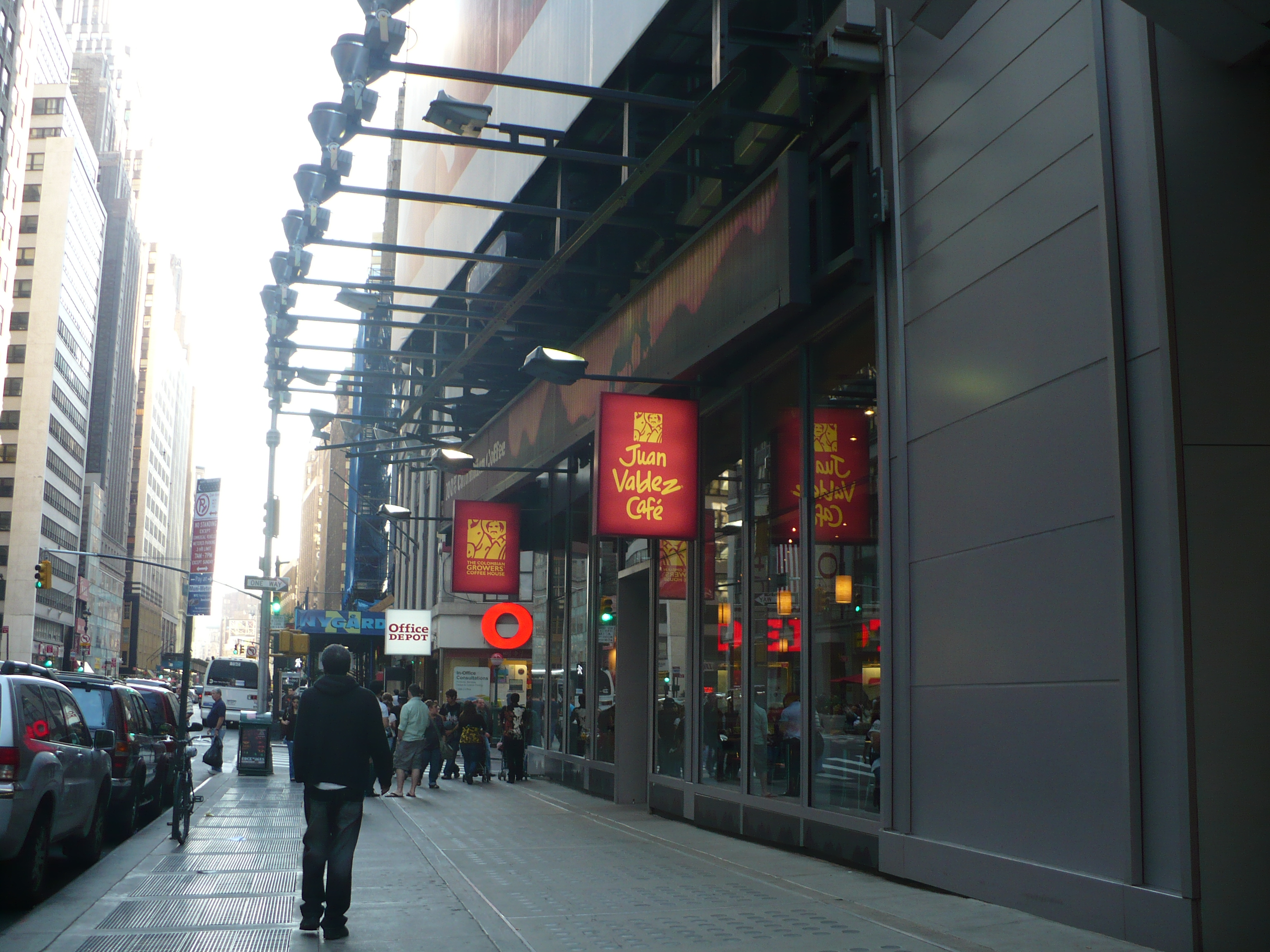 Looking south at Juan Valdez Café store at Broadway and 41st Street in New York City.